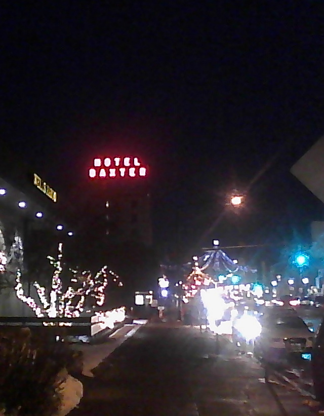 Illuminated sign atop the Baxter Hotel, West Main Street, Bozeman, Montana. Image taken December 2014 looking East